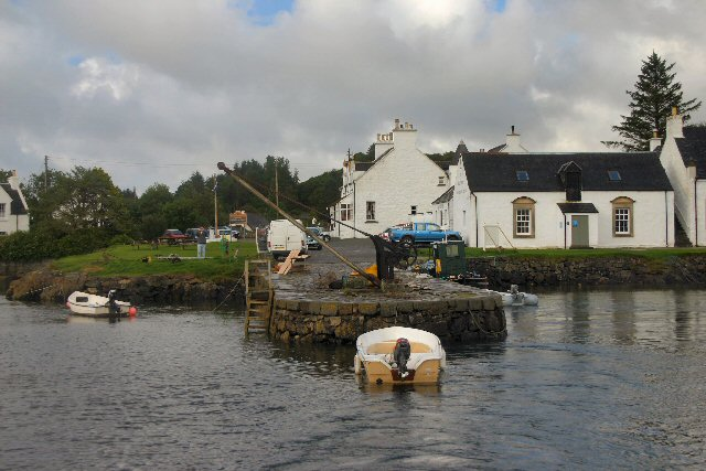 Isleornsay jetty, Skye. High tide at Isleornsay.